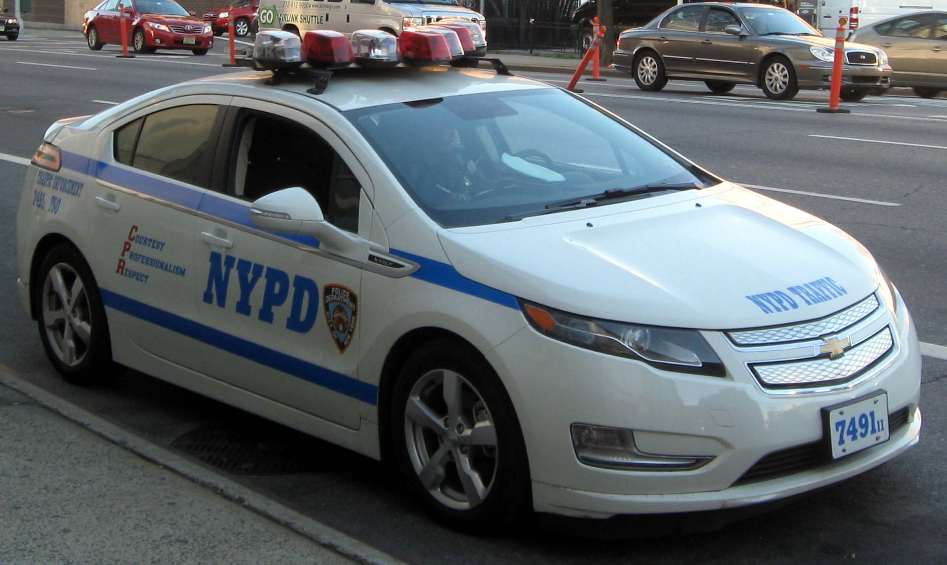 Chevrolet Volt photographed in New York City, USA.